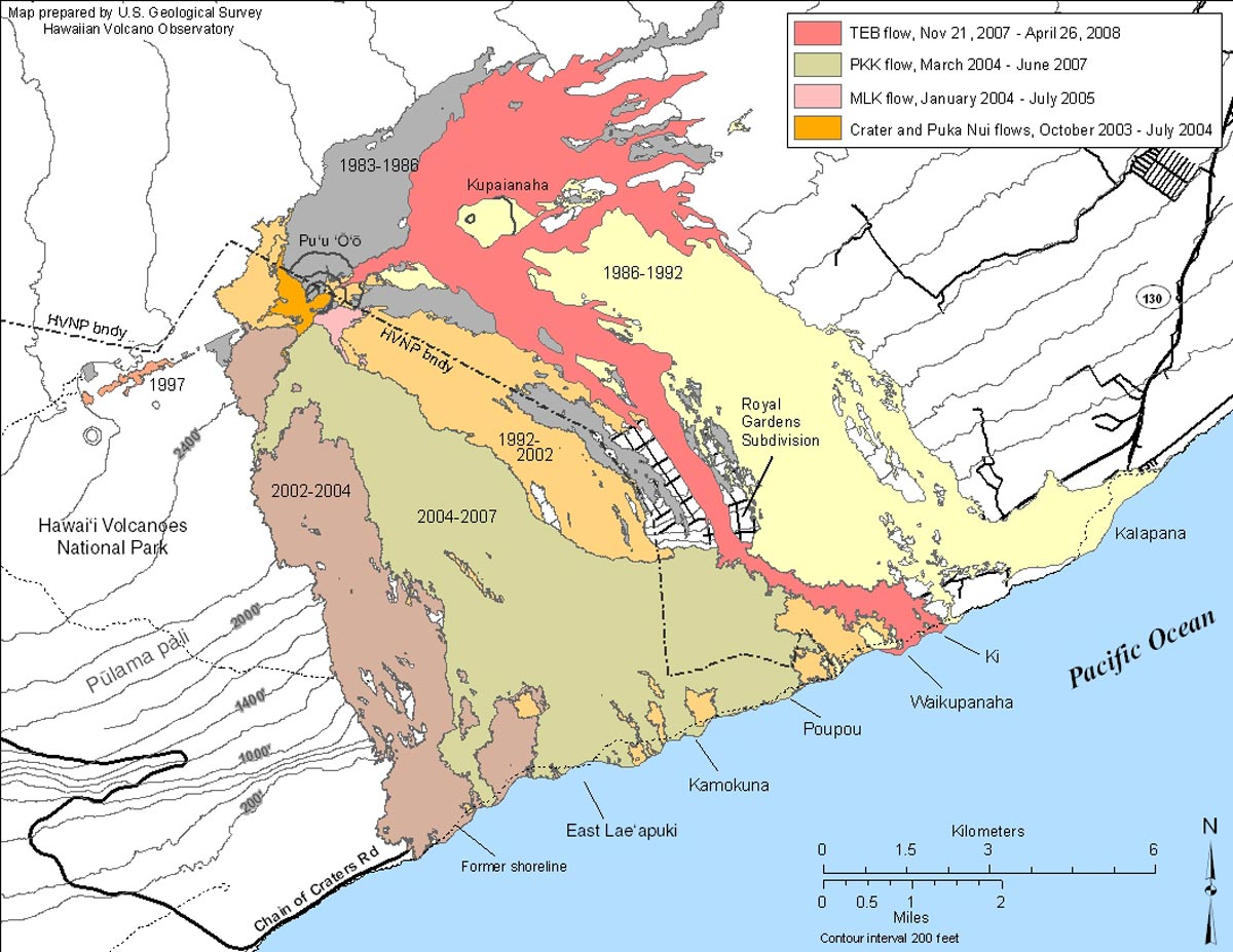 USGS Public Domain 1983-Apr 2008 Flows